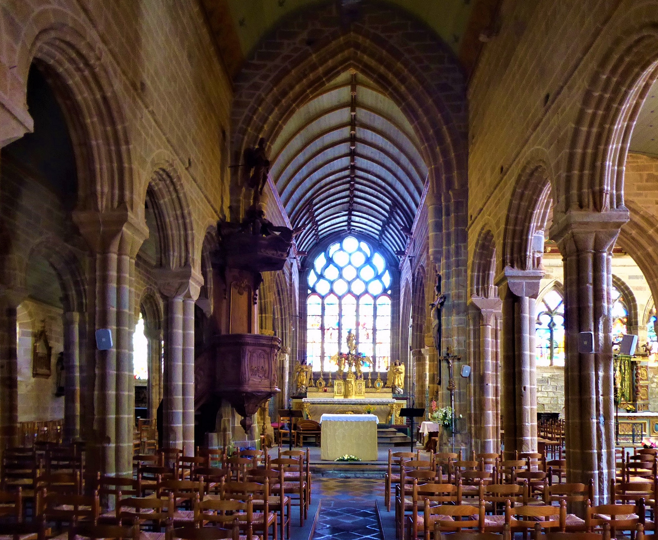 Interior of Collégiale Notre-Dame-de-Roscudon